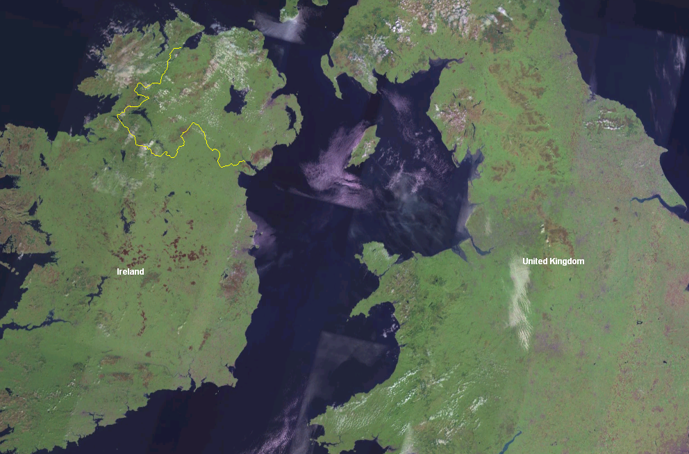 Irish Sea. Satellite view. Blue Marble Next Generation image.